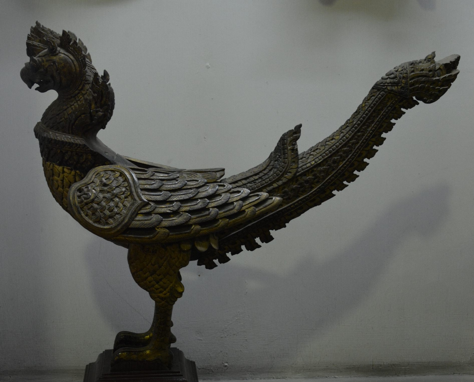 Nok Thet, mythical bird of Hindouism